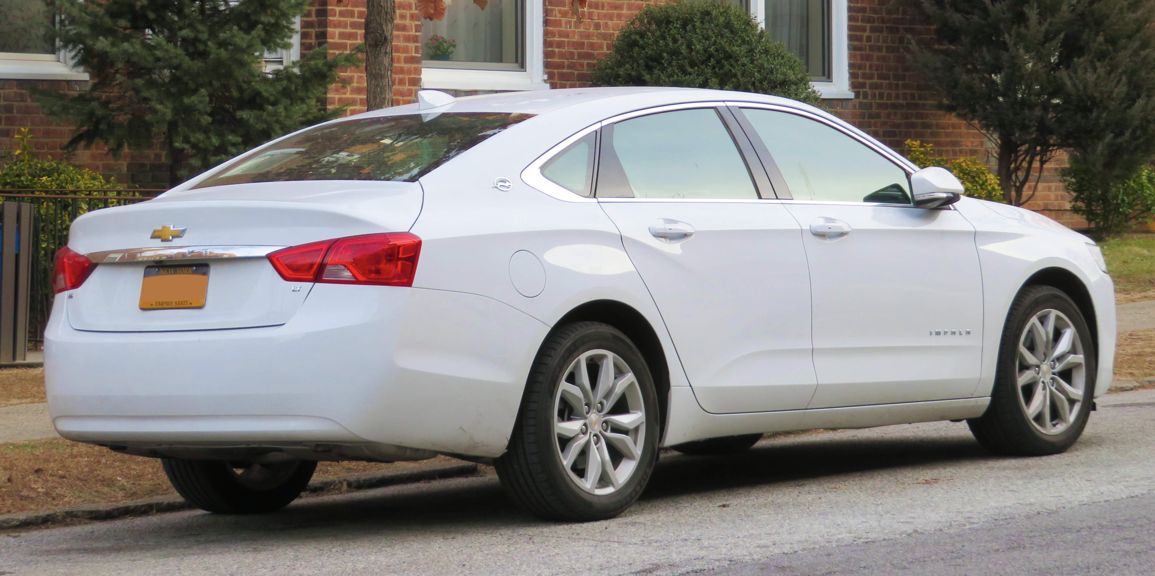 A 2019 Chevrolet Impala LT photographed in Queens, New York, USA